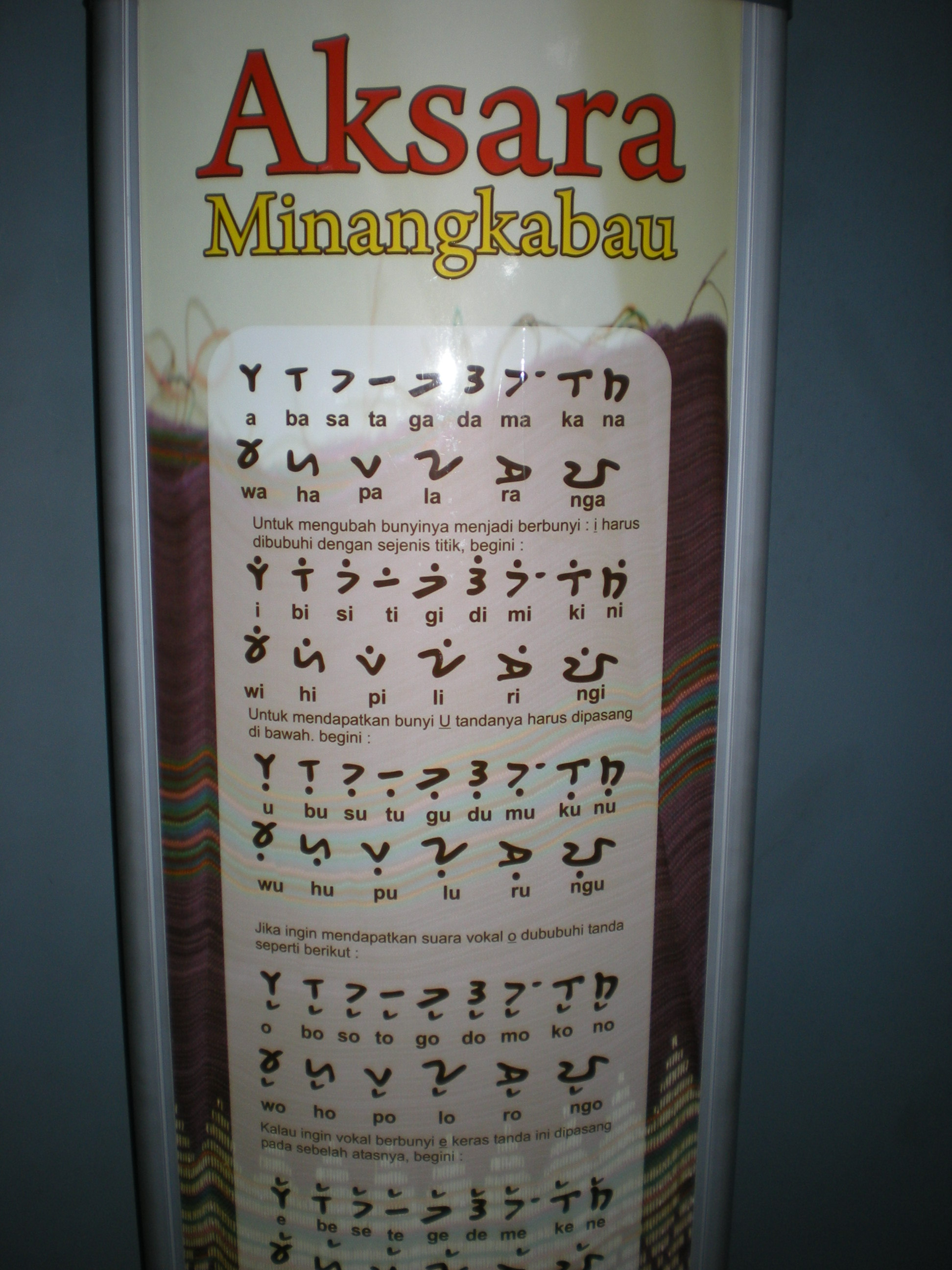 Alleged Minangkabau script, actually fake